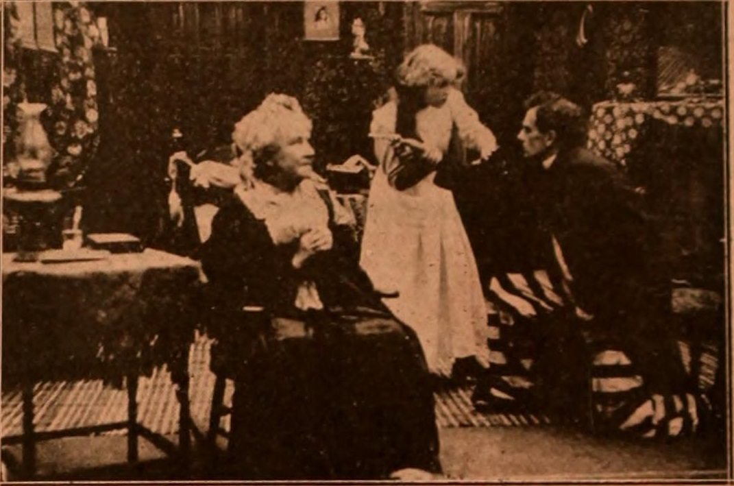 A film still from Not Guilty by the Thanhouser Company.